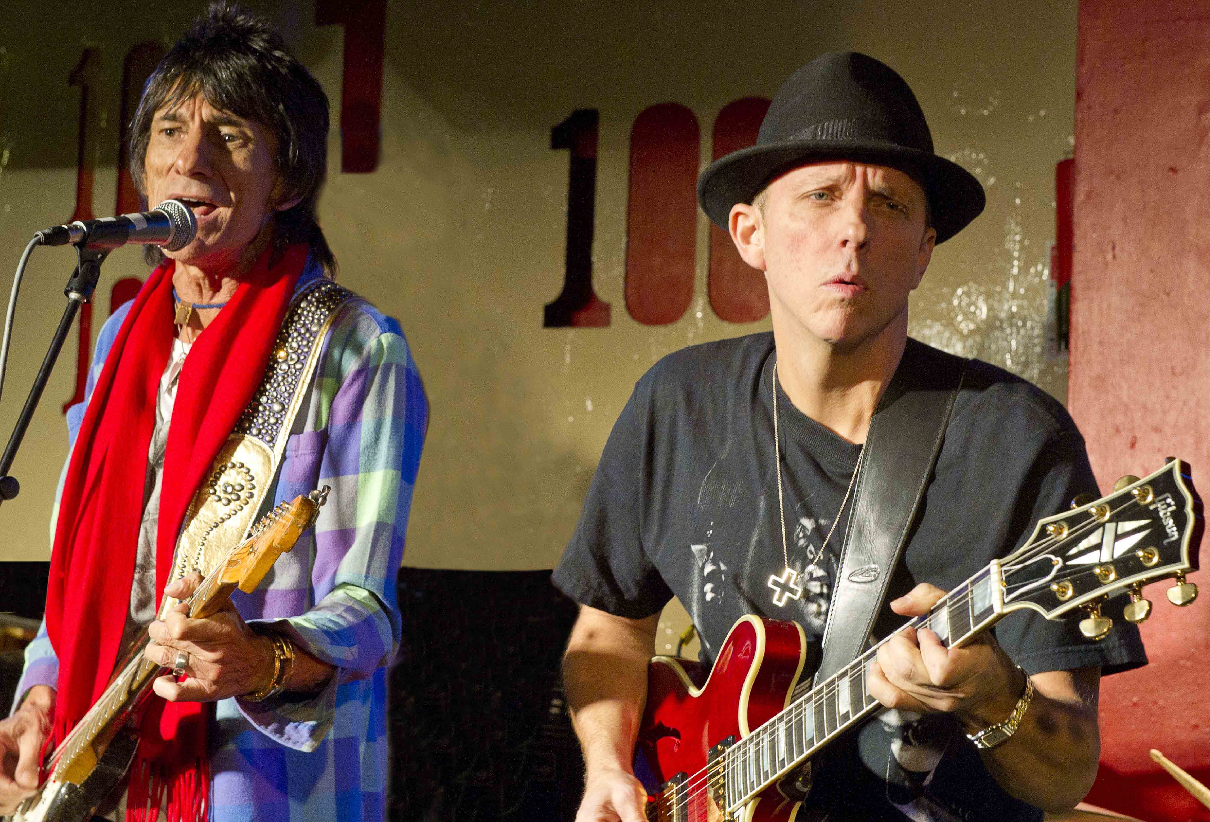 01/12/2010 OPS: Three Rolling Stones on Stage. Music Legends Ronnie Wood Mick Taylor, Dick Taylor and Chris Barber Join US Blues guitarist Stephen Dale Petit on stage at a benefit gig for the threatened 100 club. Taylor and Wood are both lead guitarists from the Rolling stone while Barber is known as the Grandfather of British Blues Dick Taylor was the original Sones Bass player and left to form the Pretty Things©Paul Stewart 2010 07917652636